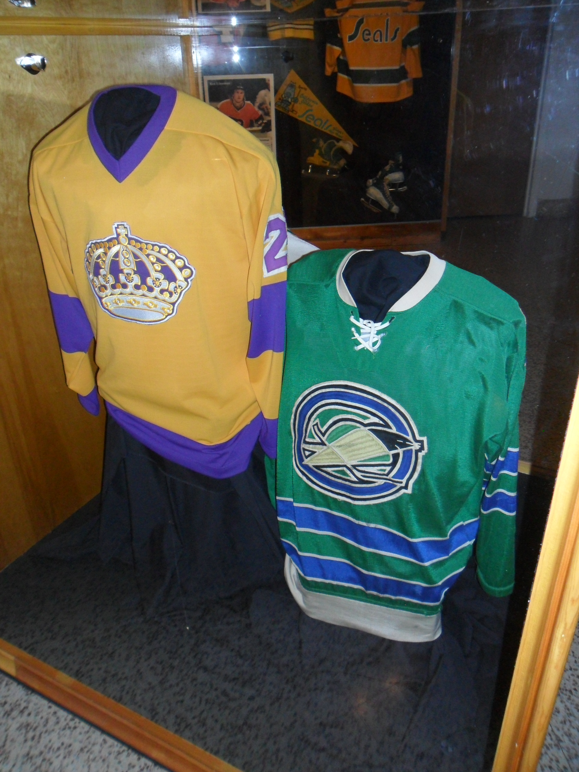 Jerseys worn in the first year of NHL expansion. They are of the Los Angeles King and the defunct Oakland Seals